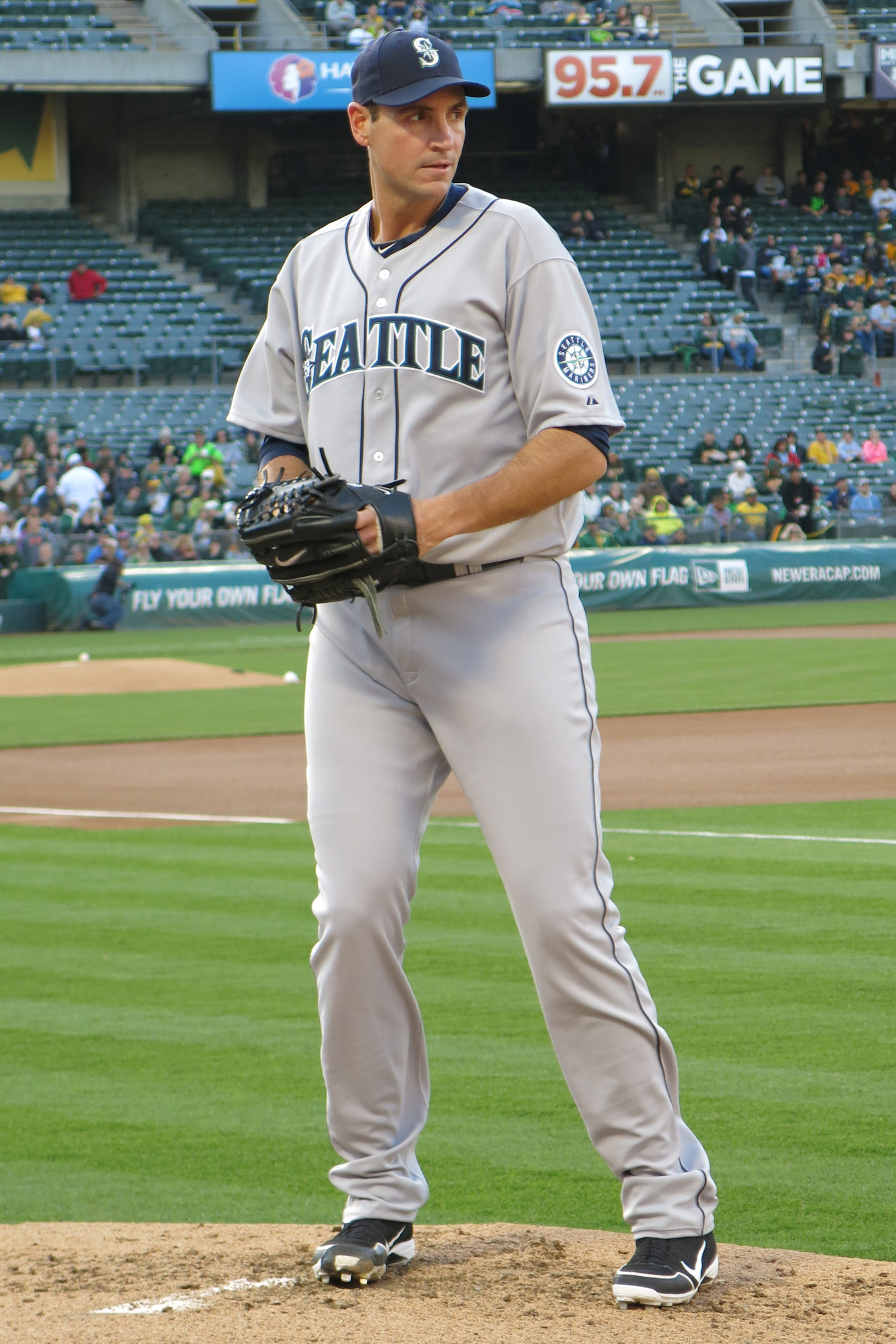 Seattle Mariners starting pitcher Chris Young warms up in the bullpen in a game against the Athletics in Oakland, California.